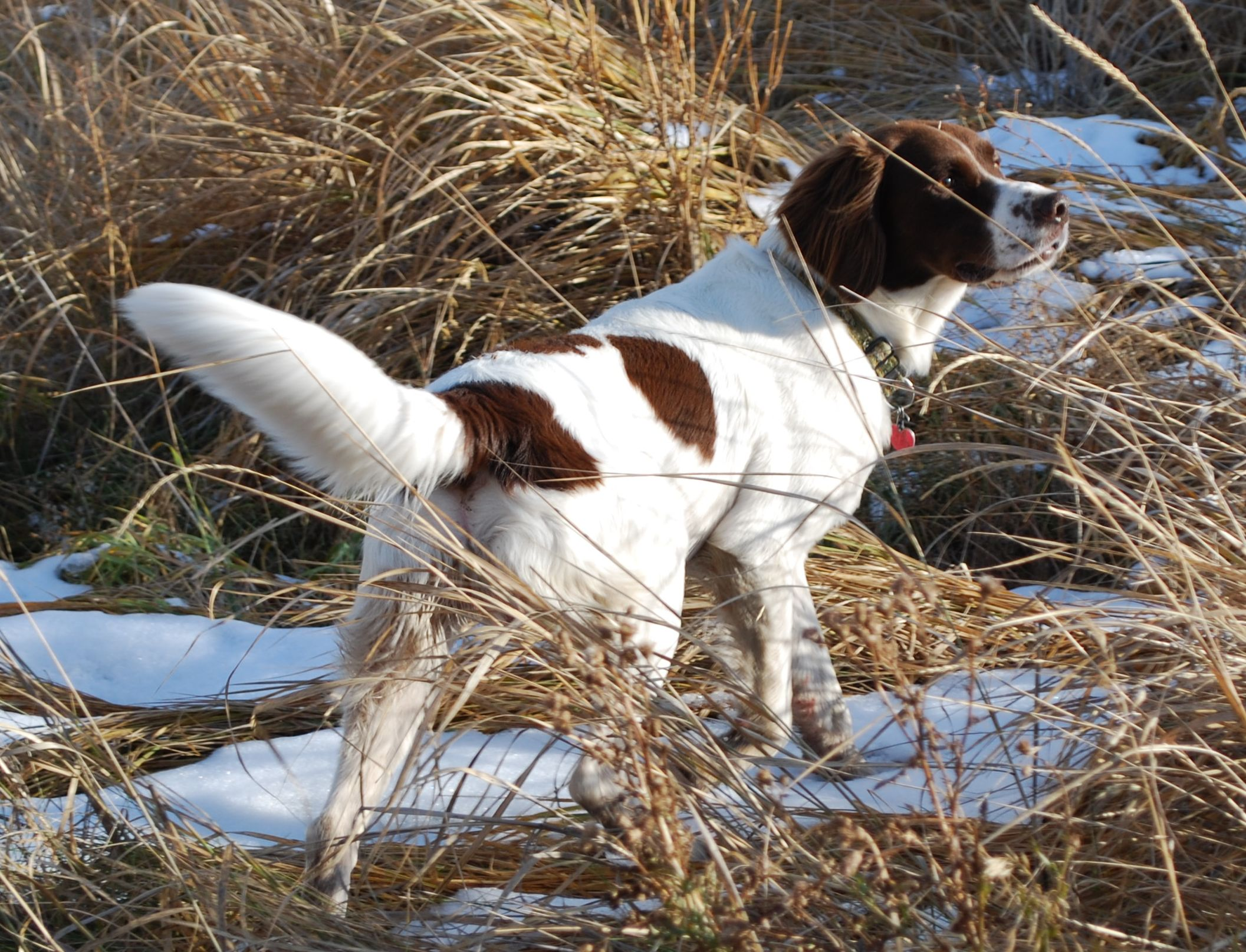 Drentsche Patrijshond Bowi the Gloucester during upland game hunt in Idaho